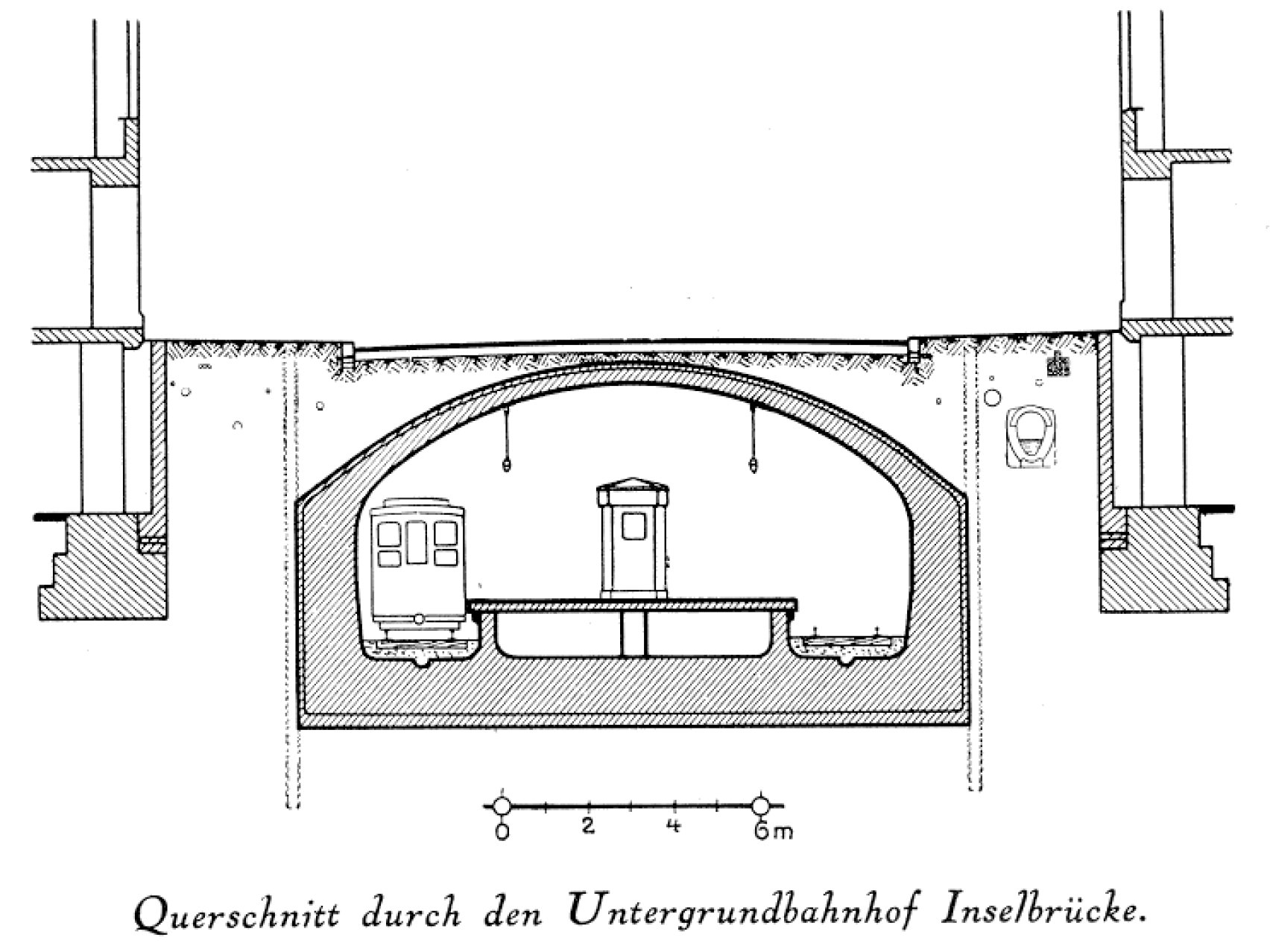 Lateral cut of the Berlin U-Bahn station Inselbrücke (today Märkisches Museum)